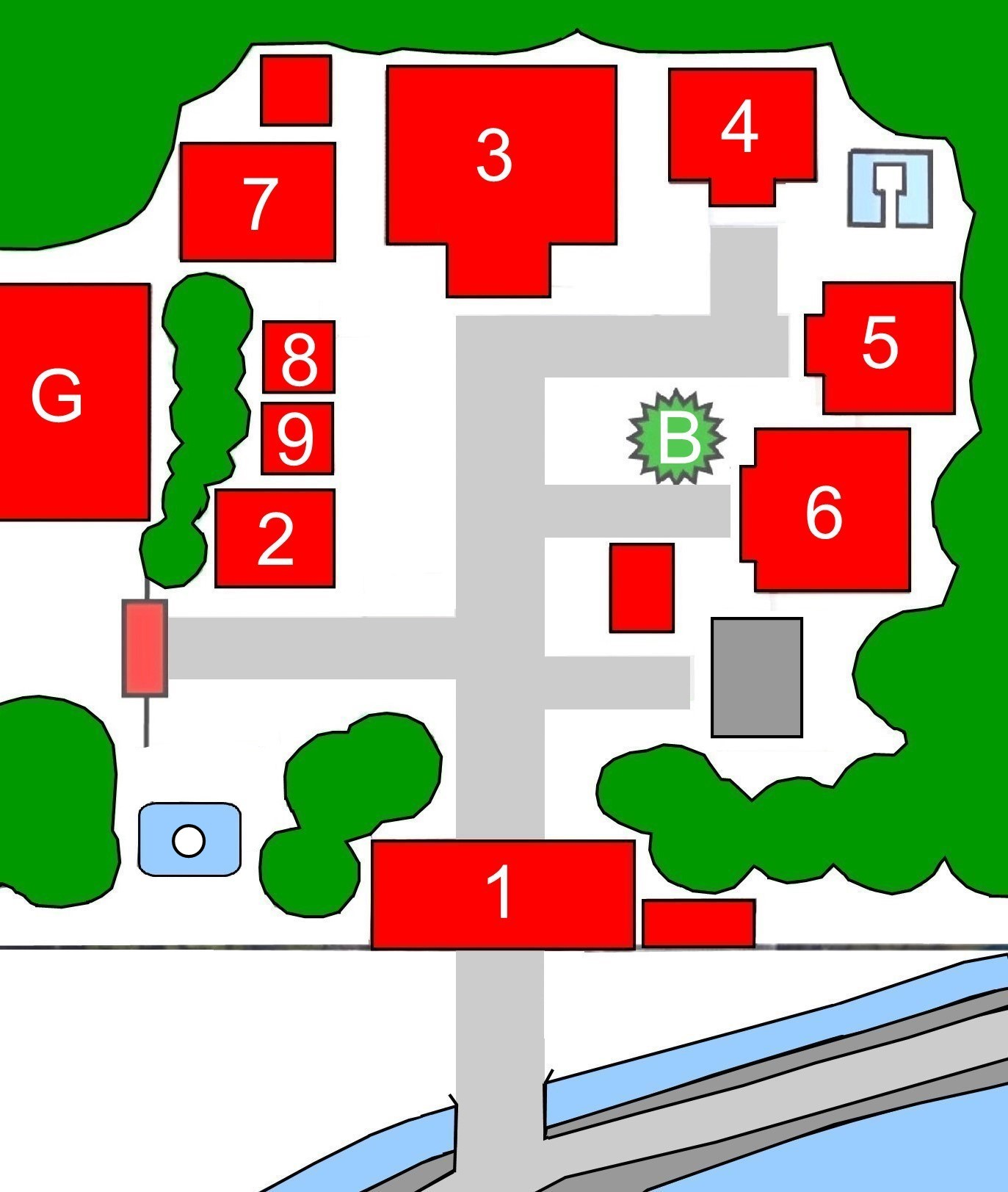 Layout of Sairin-ji (Matsuyama)